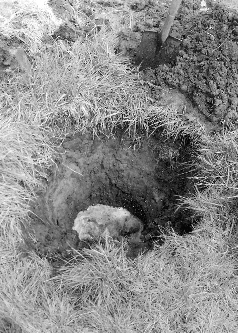 Salt well in Conow, Mecklenburg-Vorpommern, Germany.